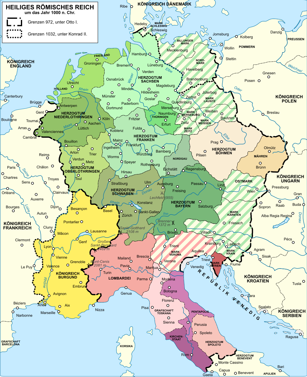 Map of the Holy Roman Empire near year 1000.